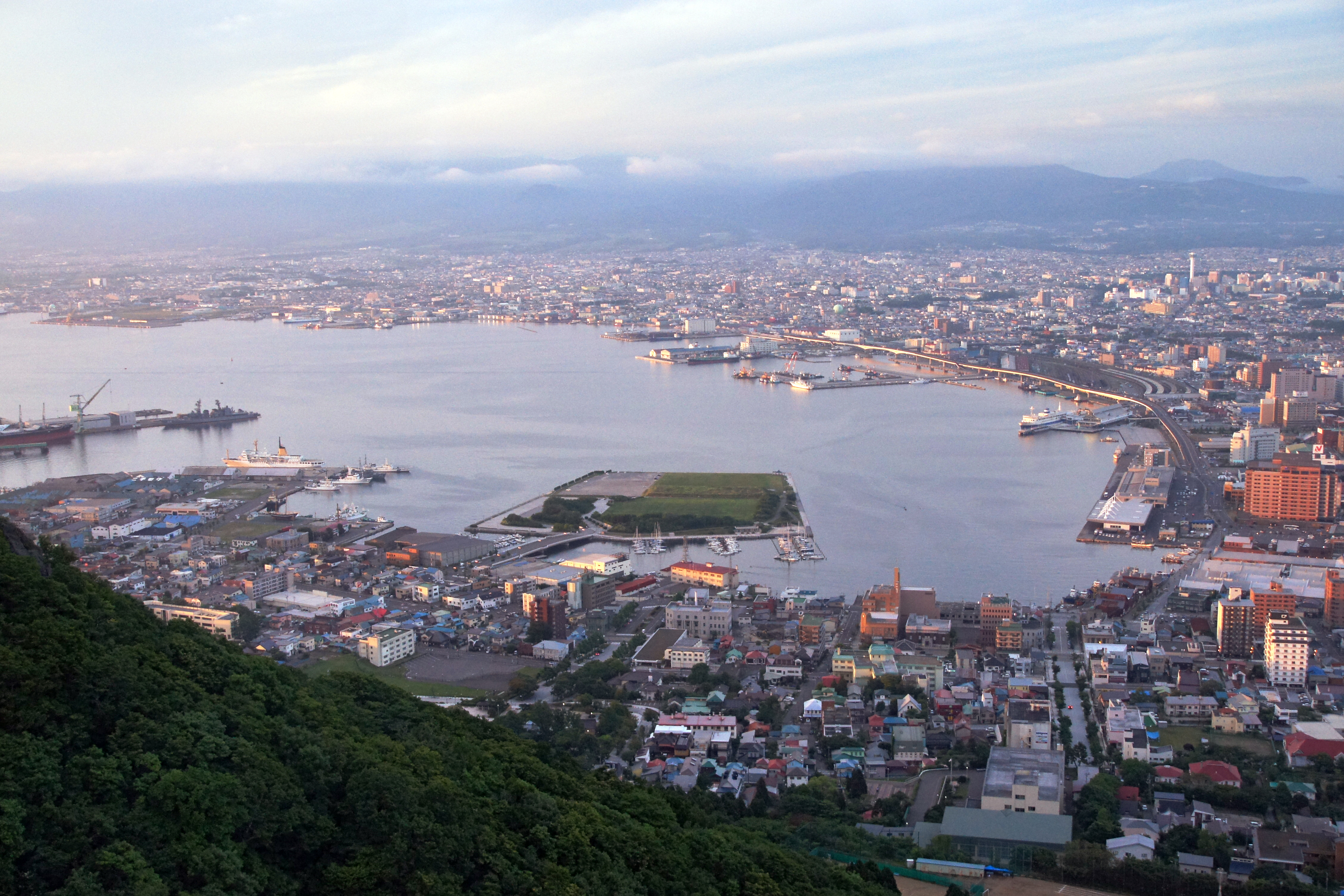 Hakodate Port, Hakodate, Hokkaido prefecture, Japan